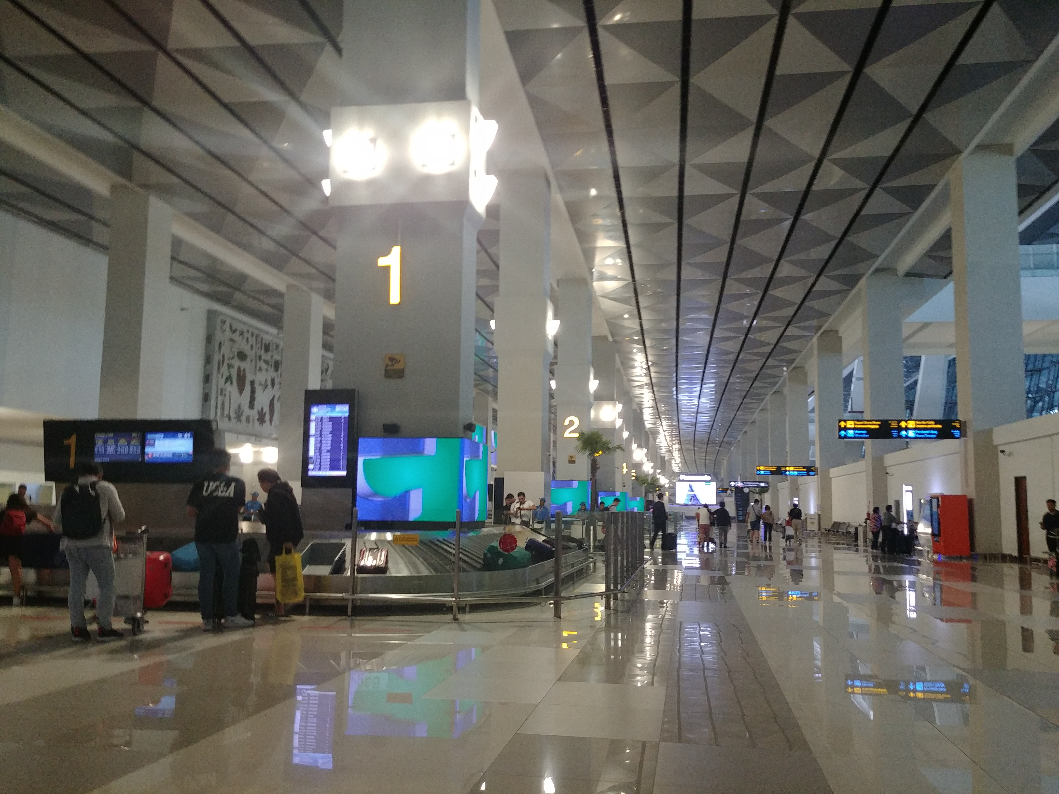 The baggage carousels at the Arrival Area of the Soekarno-Hatta International Airport Terminal 3.